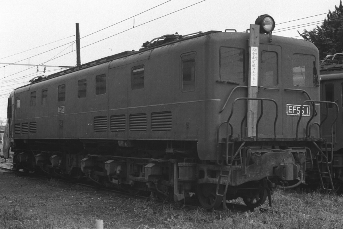 The rear end of JNR Class EF55 electric locomotive EF55 1 stored at Takasaki No. 2 Motive Power Depot